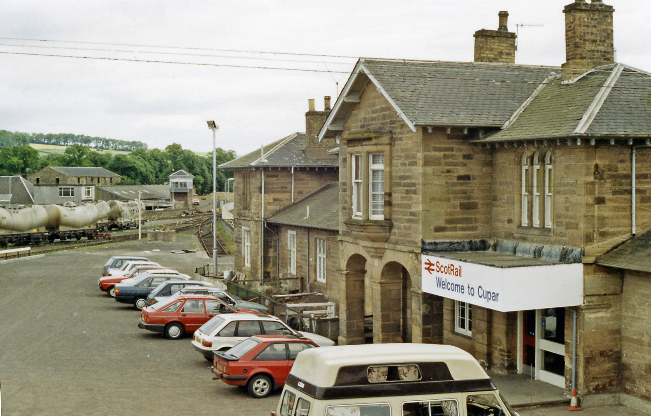 Cupar station (exterior), 1988. View NE, towards Dundee and Aberdeen: ex-NBR Edinburgh etc. via the Forth Bridge to Dundee and Aberdeen main line.